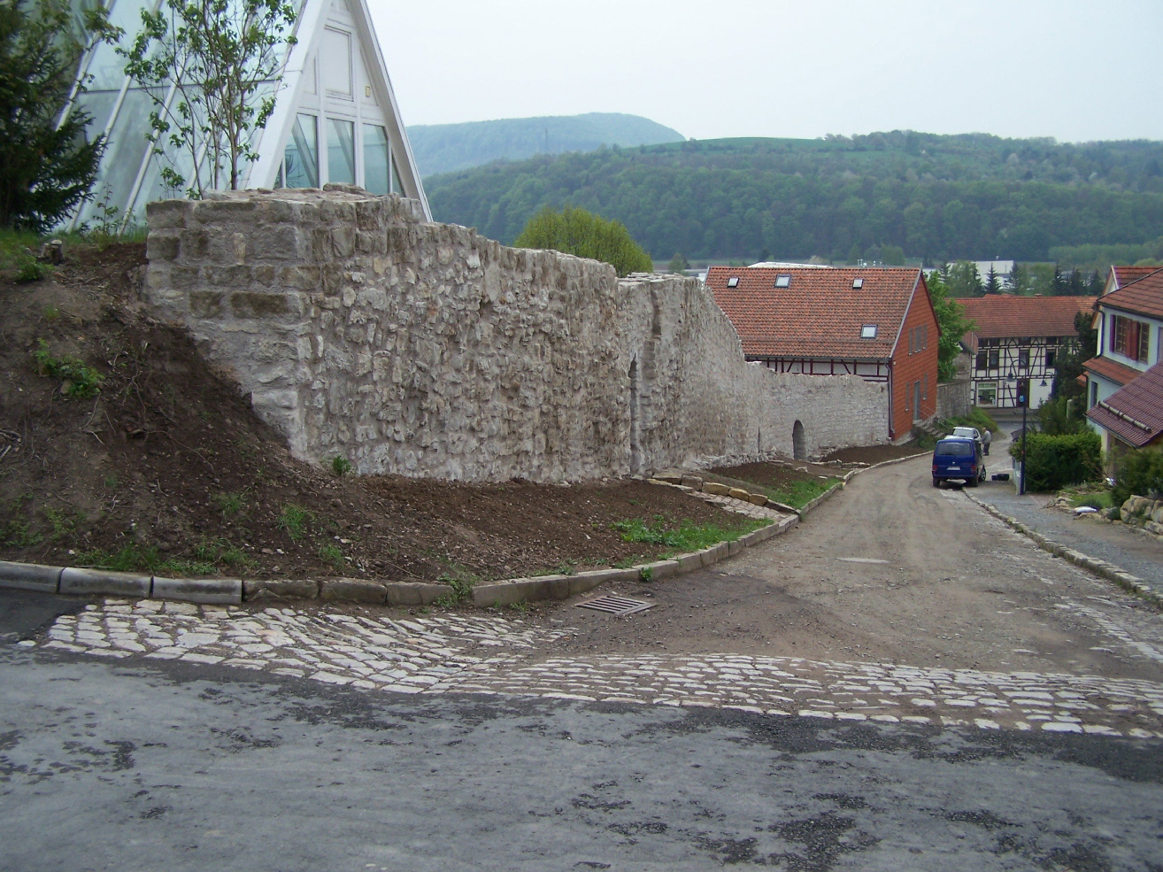 The "Burgstieg" along the city wall.